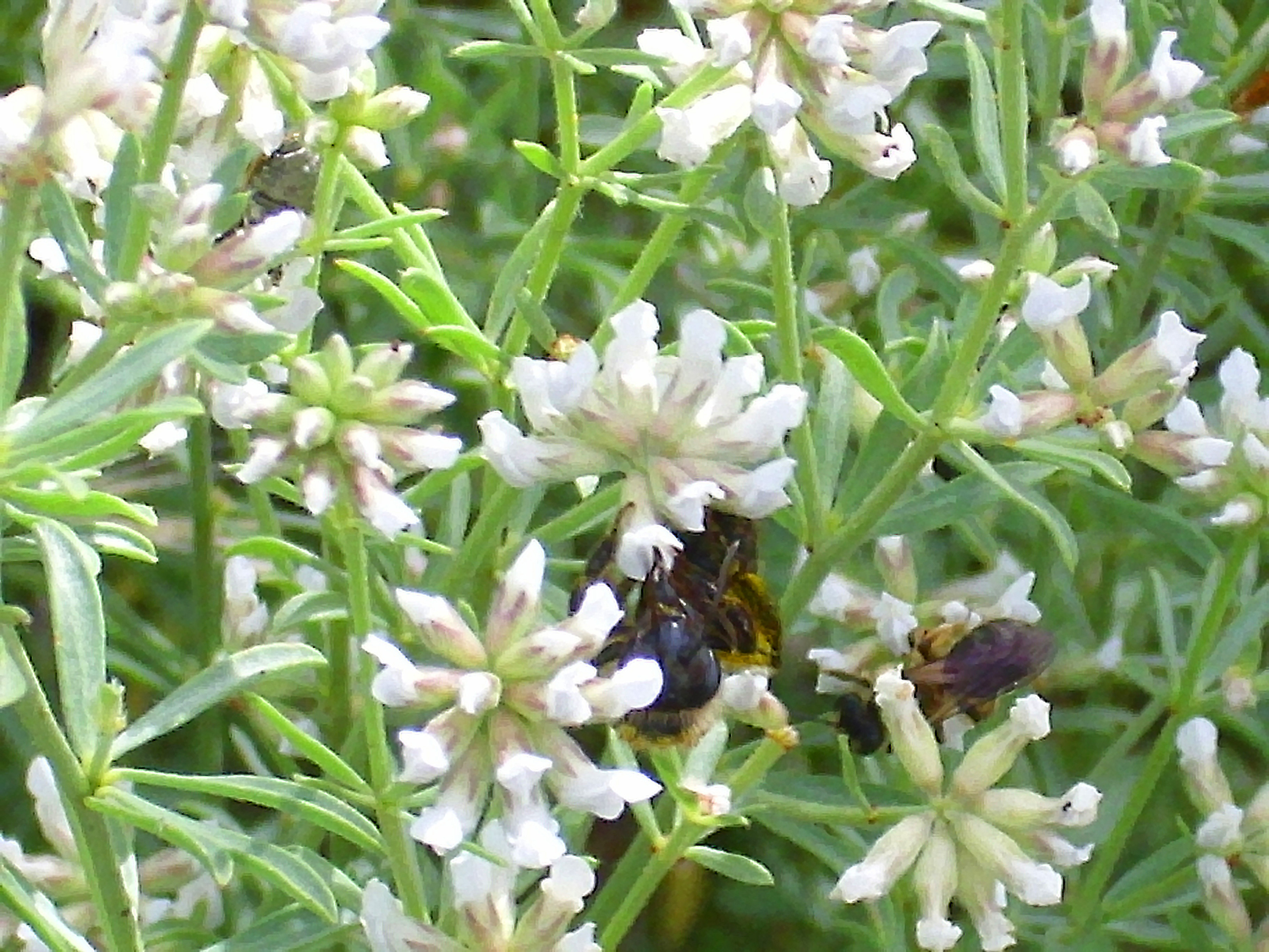 Dorycnium pentaphyllum flowers, Valderrepisa Sierra Madrona, Spain